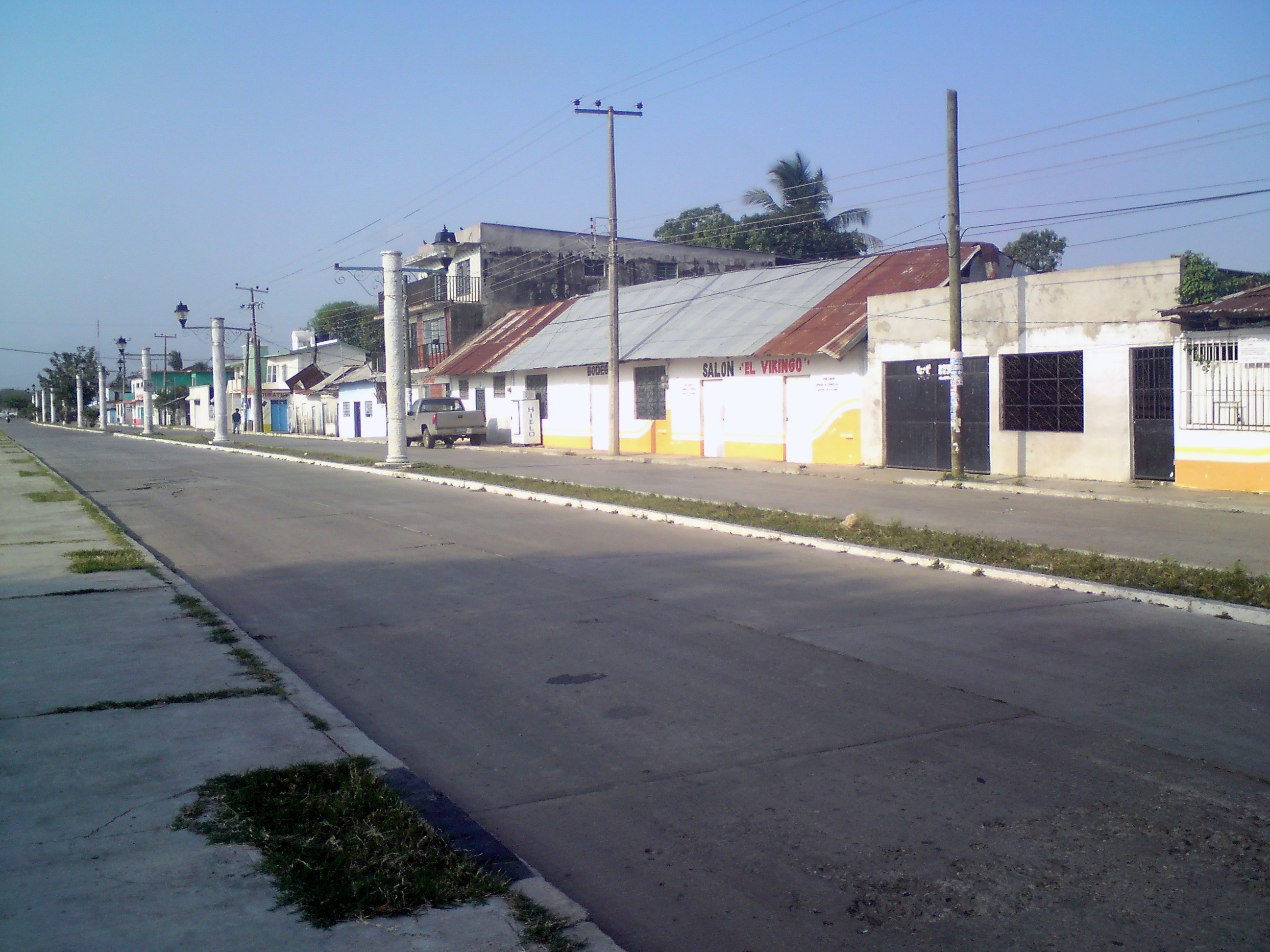 Boulevard highlight of this community, through the town from south to north in an area of 1 km, parallel to the boulevard is the railroad tracks.